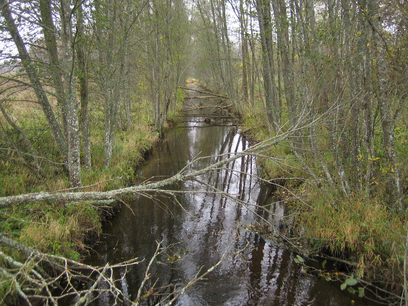 Onga river in Selli village, Jõgeva Parish, Jõgeva County, Estonia.